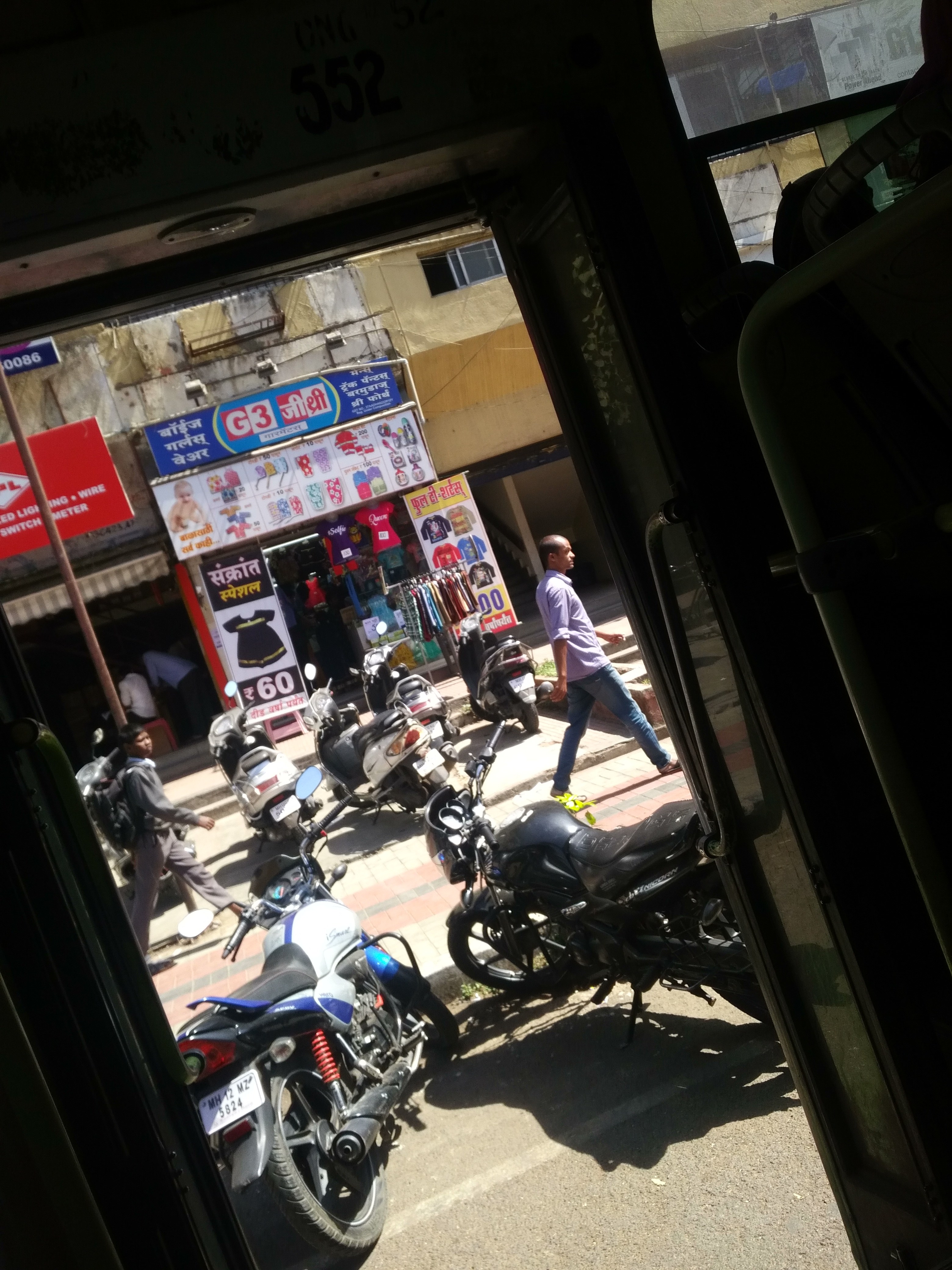 Automatic Door of PMPML Bus on Na. Ta. Wadi-Bhekrainagar(Bus number. 111) route